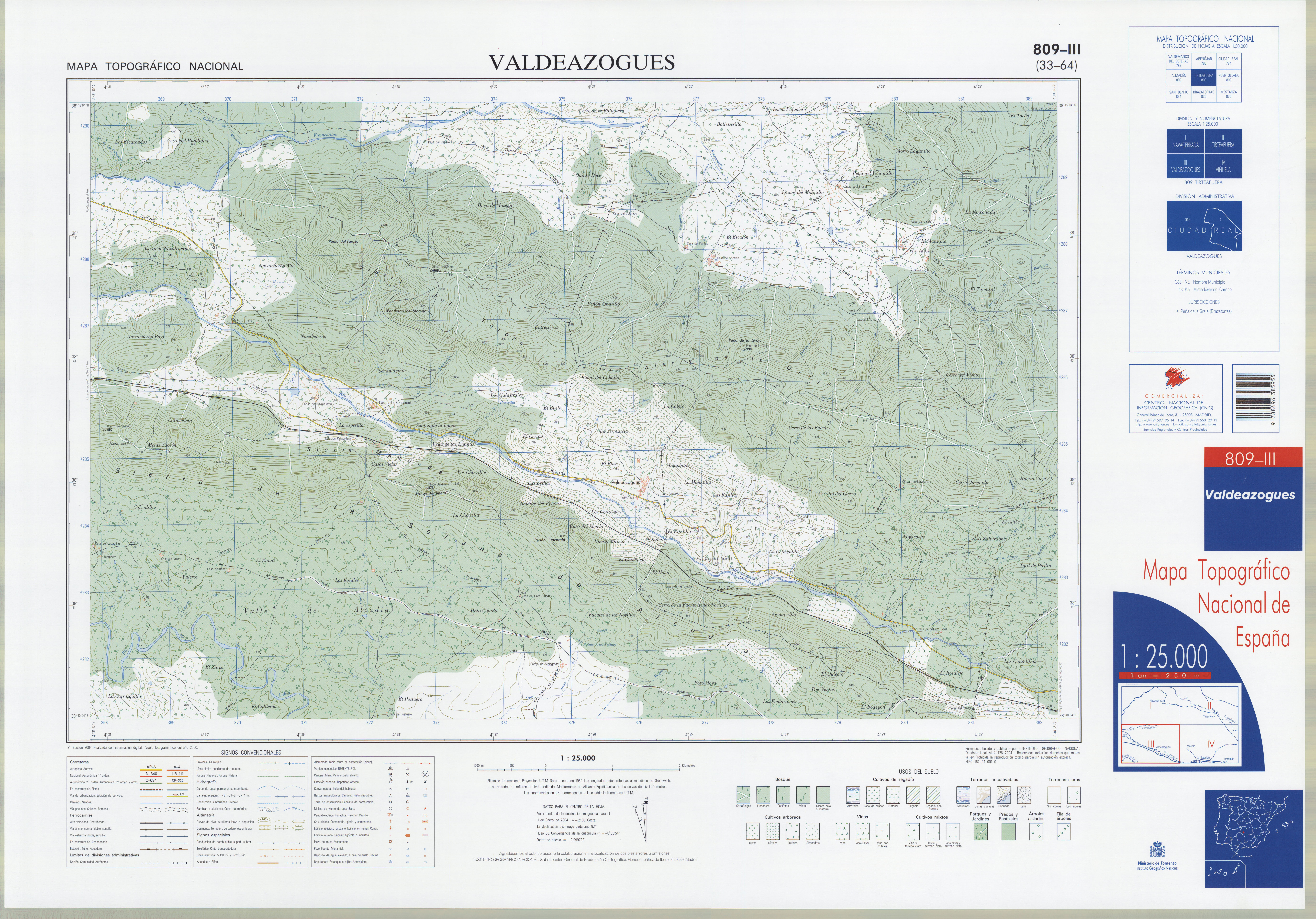 Fragment 0809c3 of the National Topographic Map of Spain in 2004 at a scale of 1:25000 printed and scanned with a resolution of 250 ppi. It shows Valdeazogues.